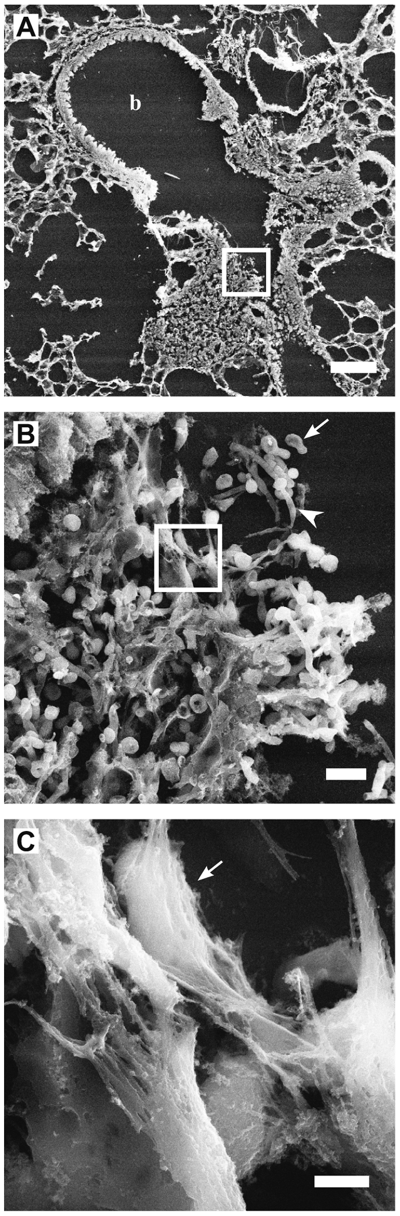 (A–C) Scanning electron microscope analysis of sections from Candida albicans infected mouse lungs 24 h after intranasal challenge. (A) Image shows a bronchiole colonized with C. albicans and infiltrated by host immune cells, b = bronchiole. (B) High resolution image of boxed area in (A) shows respiratory epithelium of the bronchiole colonized with C. albicans yeast-form (arrow) and hyphae (arrowhead). (C) High resolution image of boxed area in (B) showing neutrophil extracellular traps covering fungal surfaces (arrow). Scale bars in (A) = 100 µm, in (B) = 10 µm and in (C) = 2 µm.